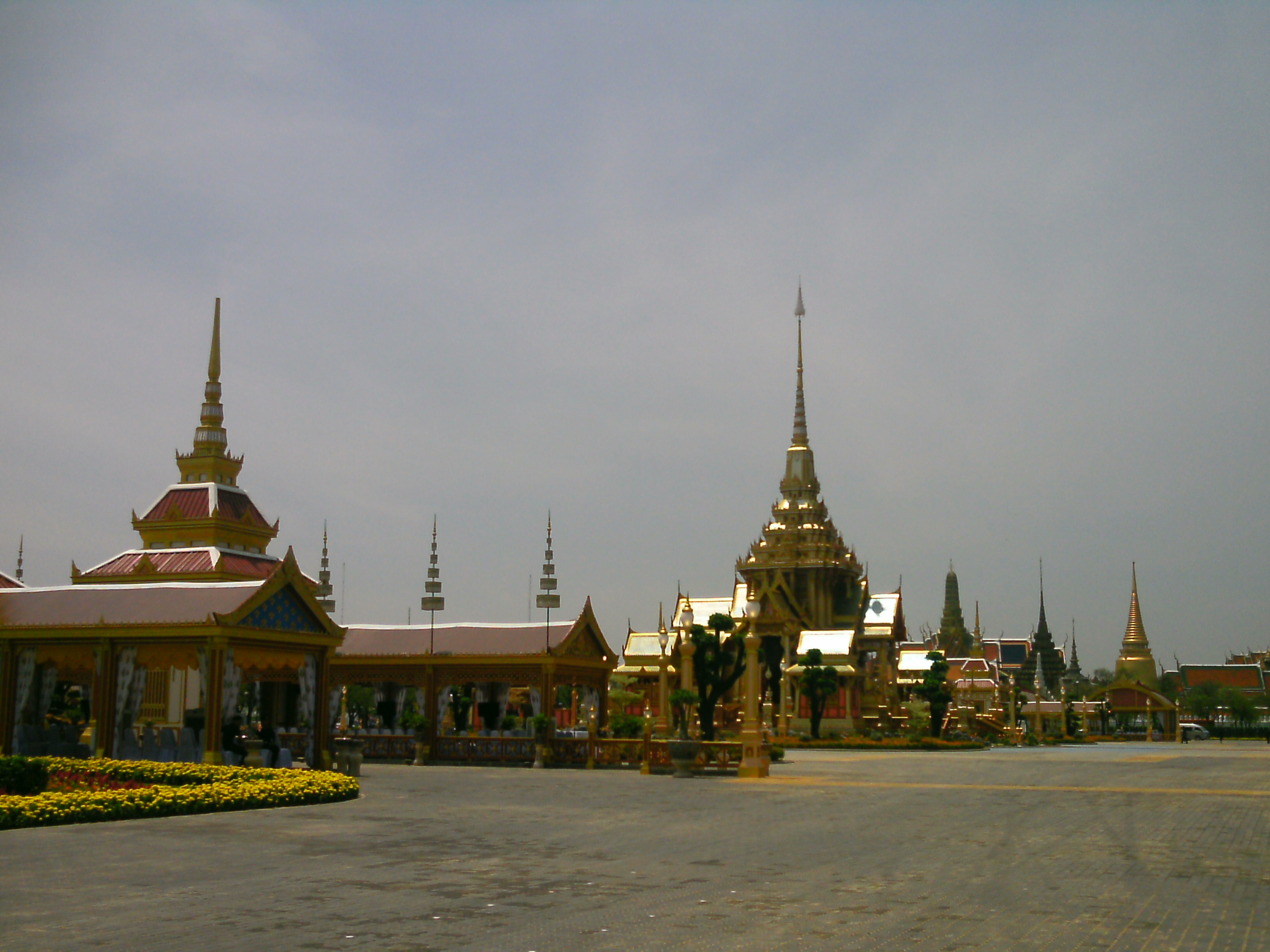 Royal crematorium of HRH Princess Bejaratana Rajasuda, the only one daughter of King Vajiravudh (Rama VI) of Siam.